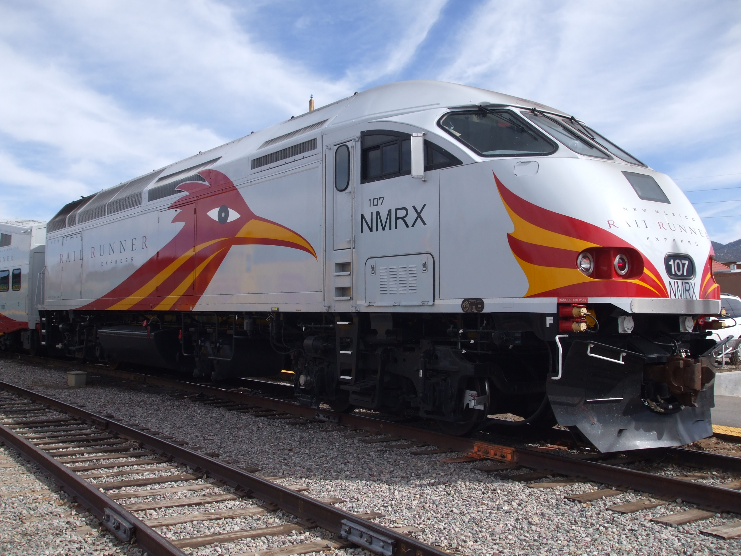 Rail Runner Express locomotive. Taken at Santa Fe Depot.